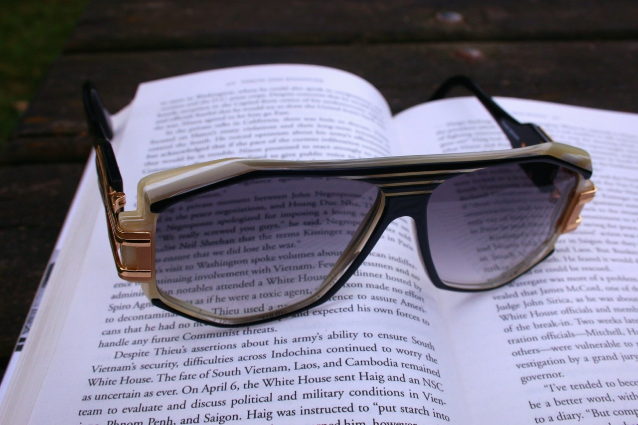 Cazal Legends 163